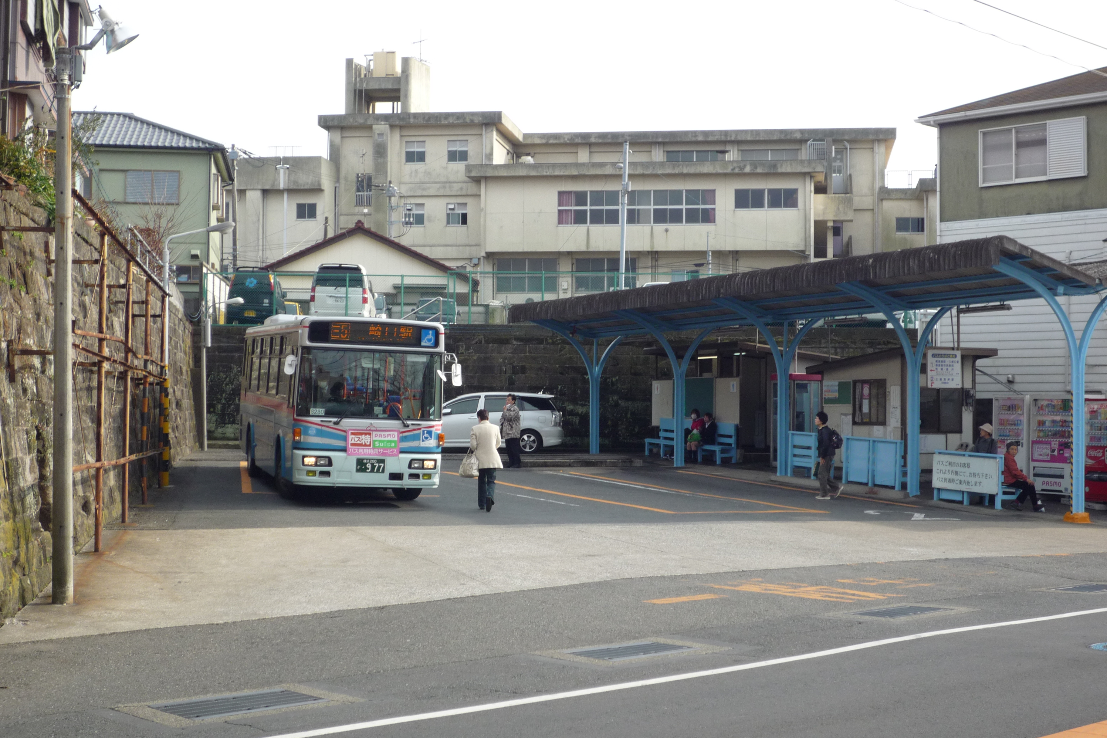 Keihin Kyuko Bus Misaki-higashioka Bus Stop